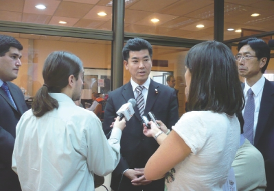 Kenta Izumi, Parliamentary Secretary of Cabinet Office, met Vicente Núñez, Director of the Oficina Nacional de Emergencia del Ministerio del Interior, in Chile on April 29, 2010.(For terms of use, see 内閣府ホームページ利用規約 - 内閣府.)